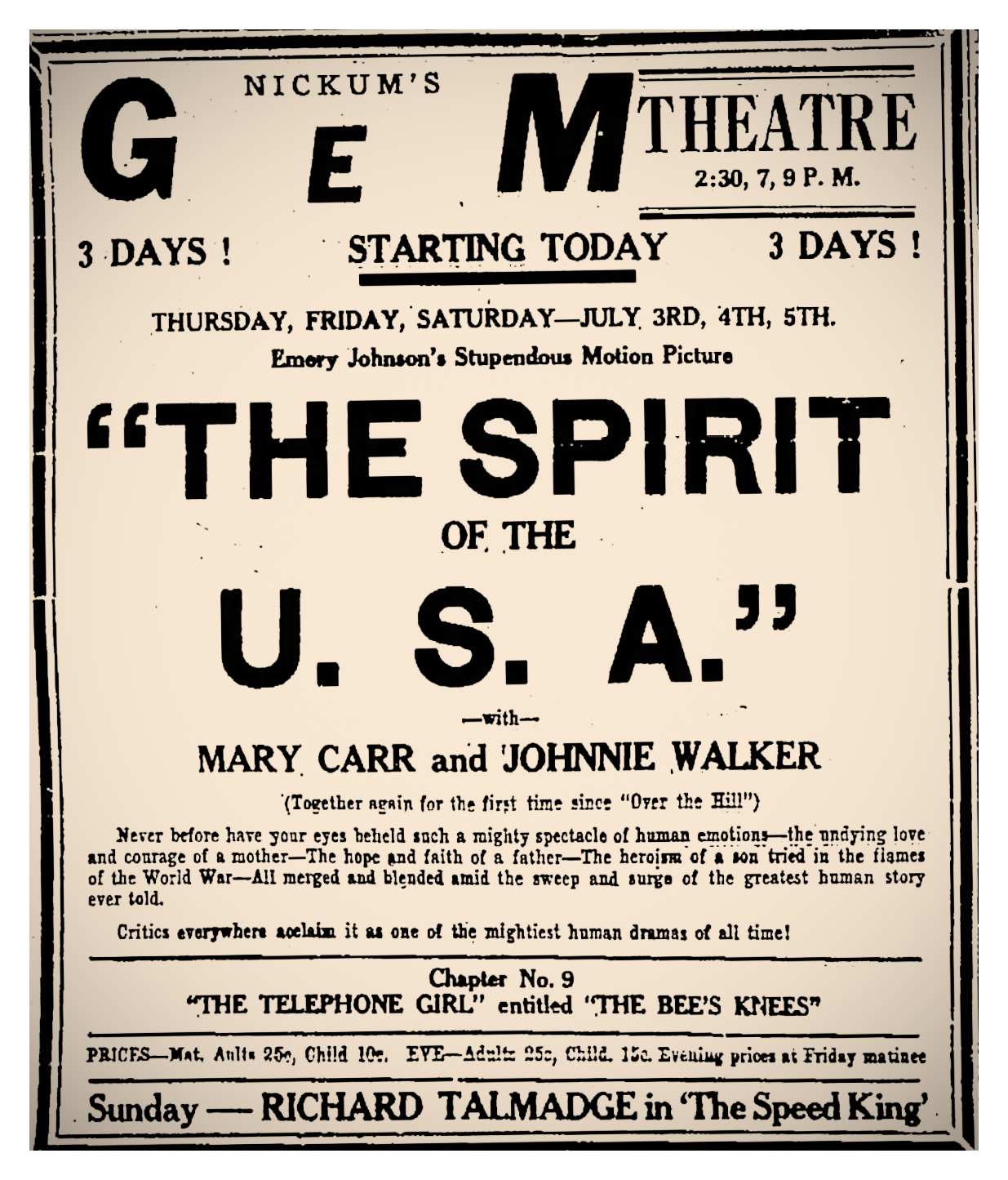 Theater Ad for this movie